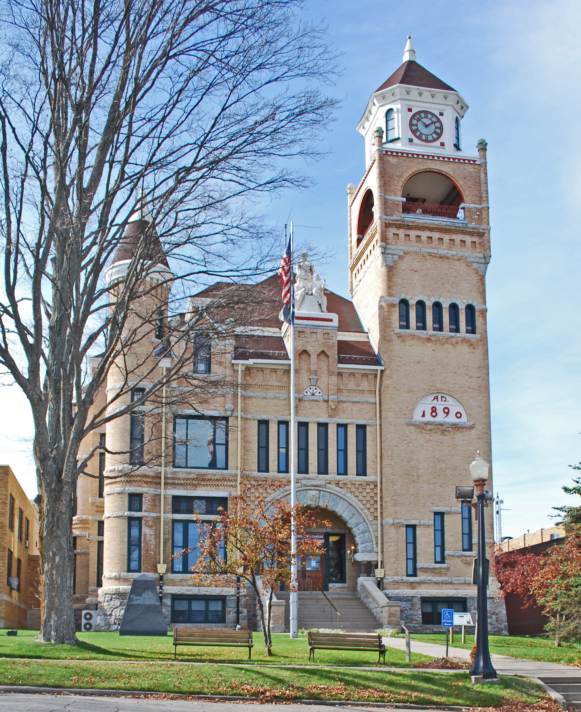 Iron County Courthouse — Crystal Falls, Michigan. A Michigan State Historic Site, and on the National Register of Historic Places.